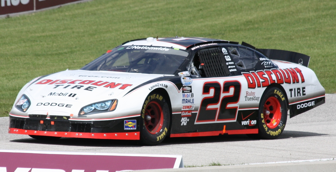 The NASCAR racecar for driver Brad Keselowski at the 2010 Bucyrus 200 at Road America.